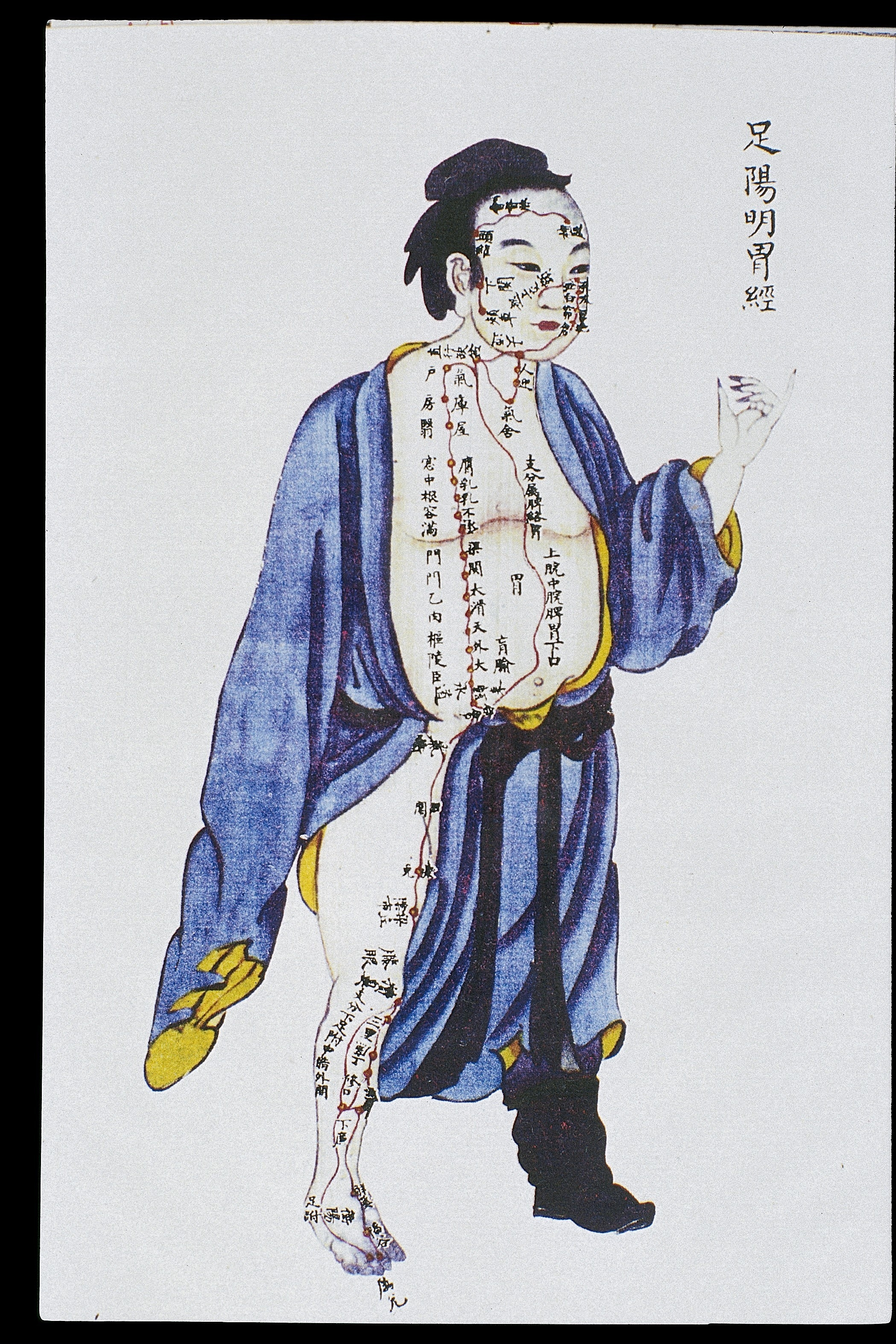 Illustration showing the stomach channel of legyangmingfromRenti jingmai tu(Illustrations of the Channels of the Human Body), a manuscript text executed during the Kangxi reign period of the Qing dynasty (1662-1722), illustrated with 24 paintings in colour. Painting in colour